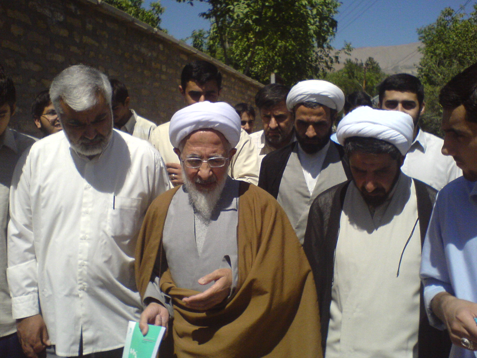 Ayatollah javadi Amoli in damavand